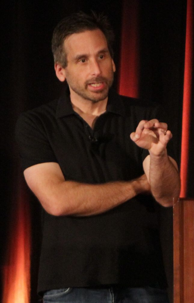 Ken Levine at the 2014 GDC Conference →This file has been extracted from another file: Ken Levine at 2014 GDC.jpg